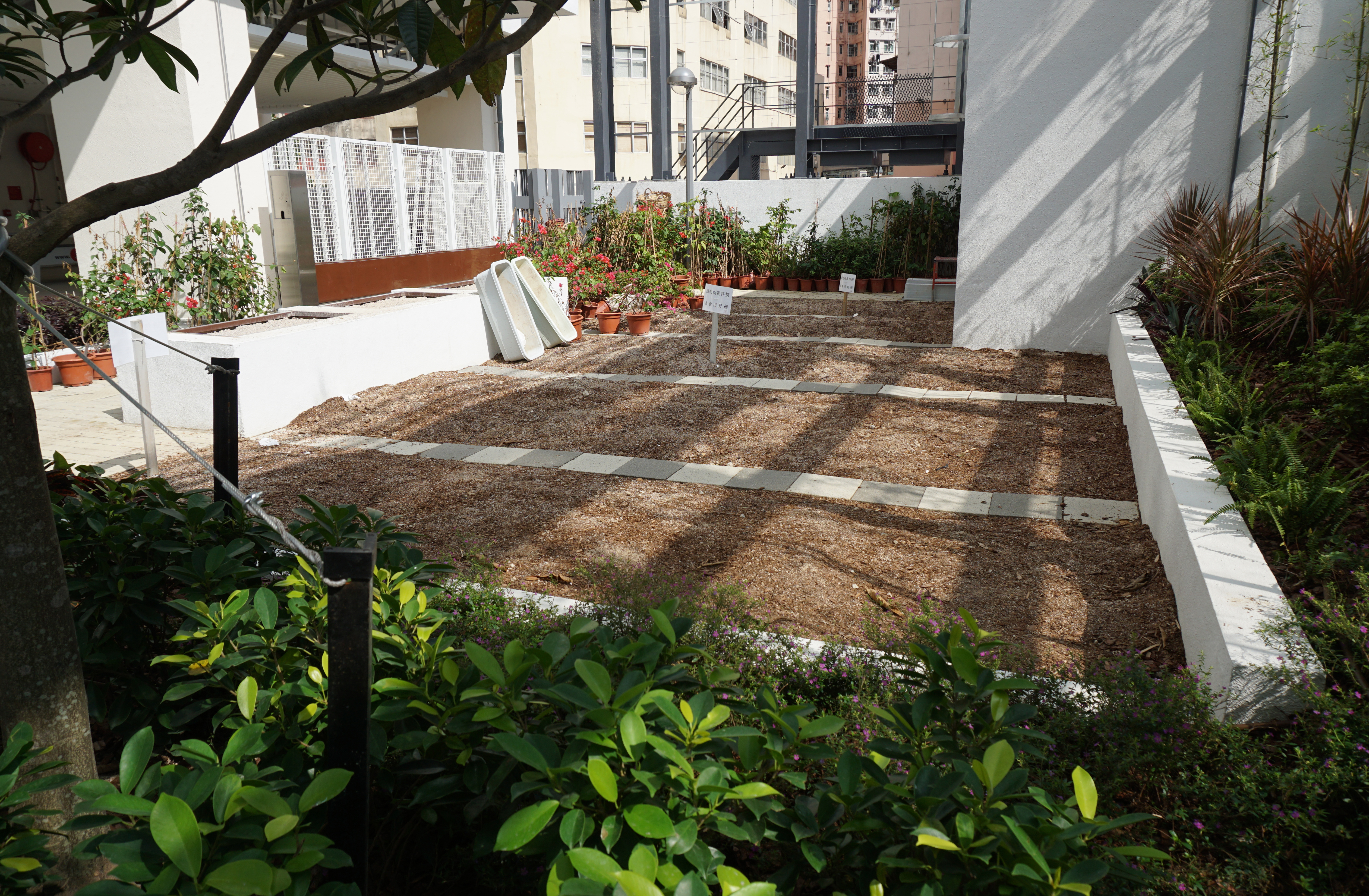 Long Ching Estate in Long Ping, Hong Kong.